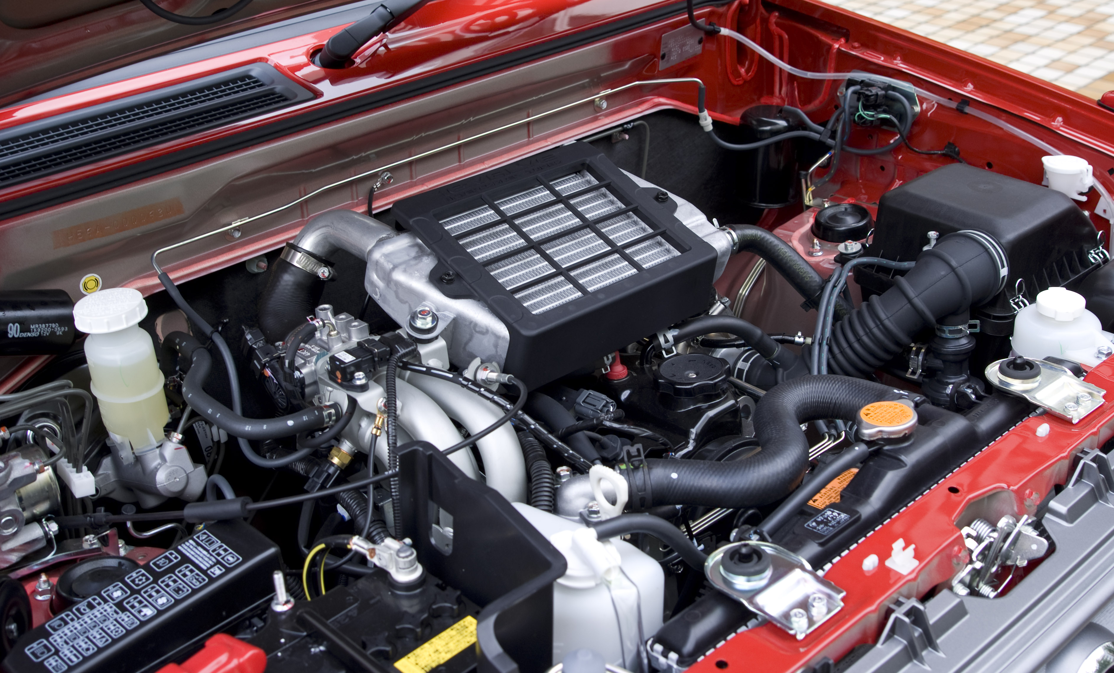 Mitsubishi 4A30 Straight-4 SOHC Intercooler Turbocharged Engine installed in Nissan Kix